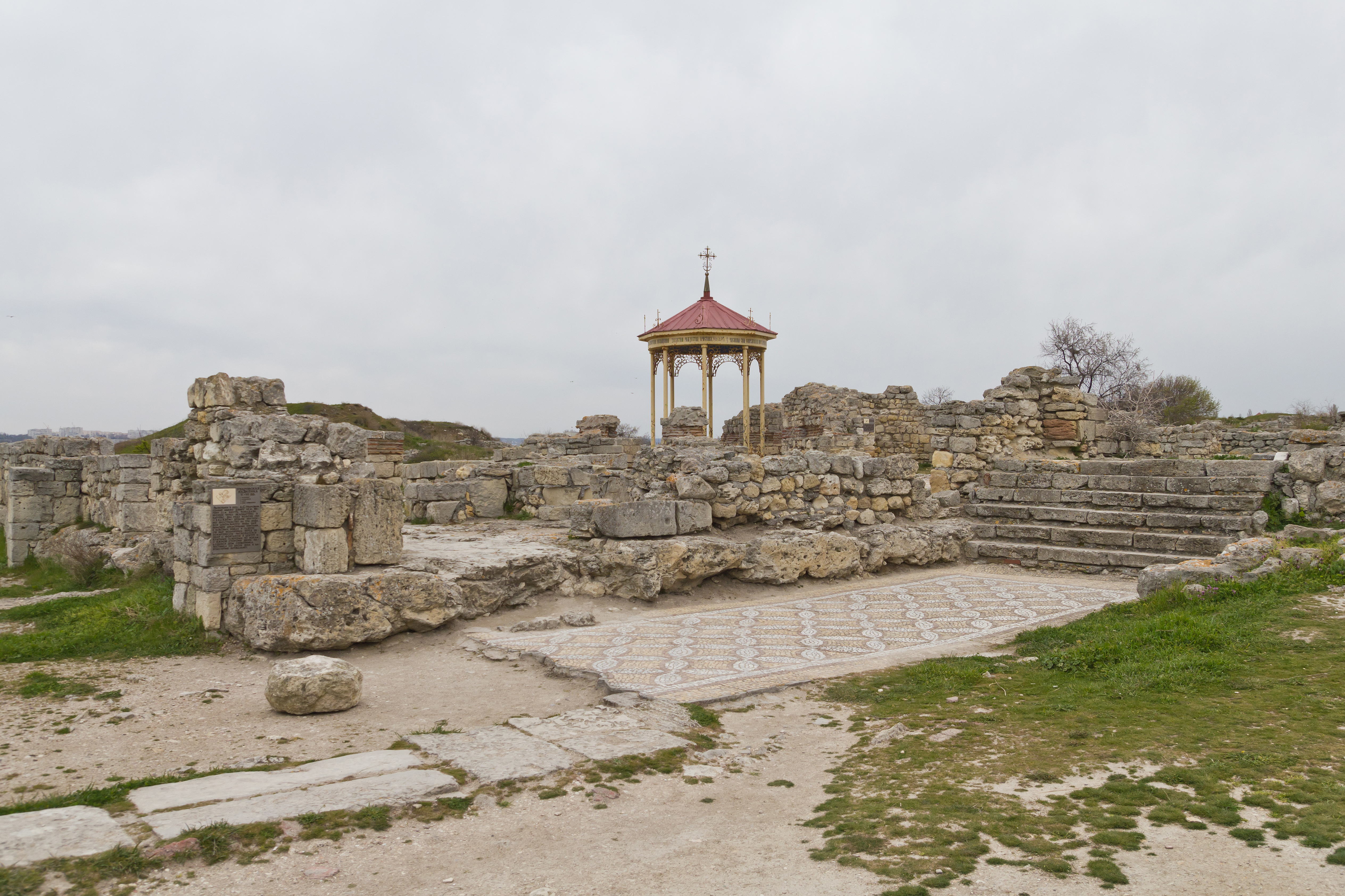 The archaeological site at Chersonesus in the Federal City of Sevastopol. Crimean peninsula.